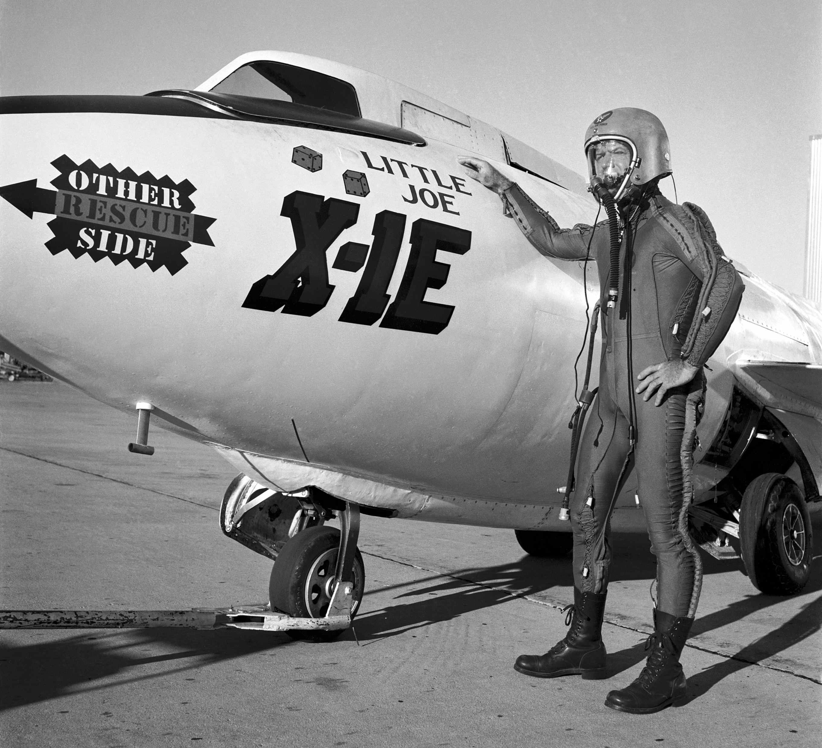 NASA test pilot Joe Walker in pressure suit with X-1E.